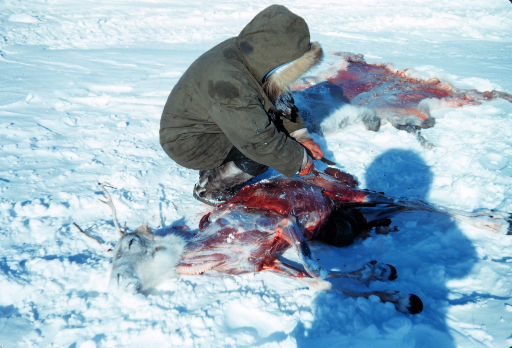 Caribou being butchered and skinned by Eskimo hunter at Leavitt Island, Alaska North Slope, spring 1949. Caribou steak that night and some for the dogs too!